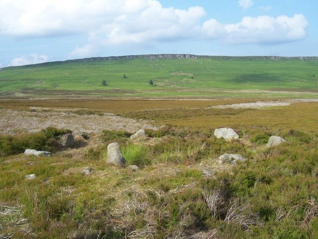 Stone circle on Bamford Moor Stone circle on Bamford Moor, near to Dennis Knoll, looking towards High Neb.